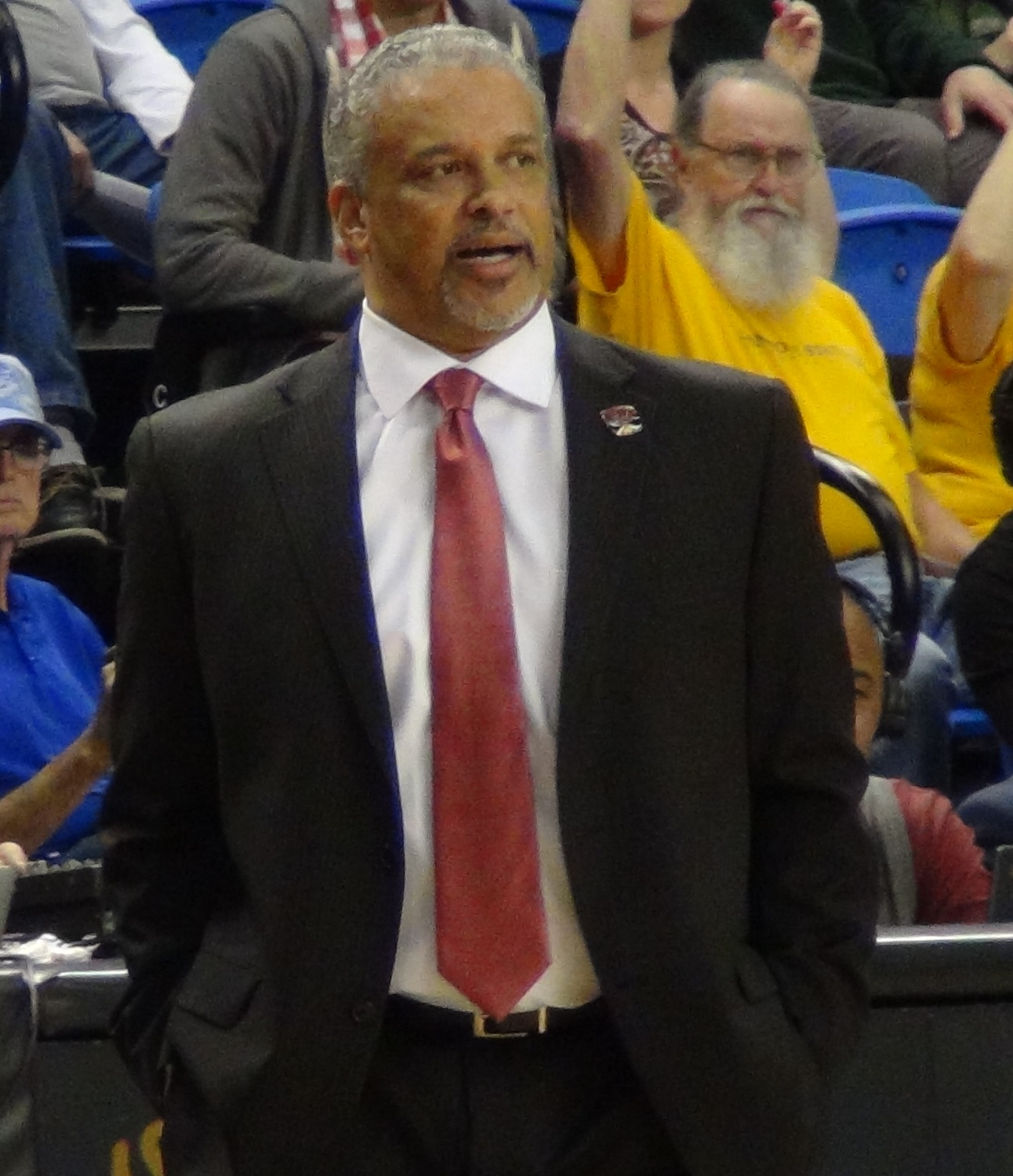 UNLV head coach Marvin Menzies at the Event Center for UNLV's game at San Jose State.